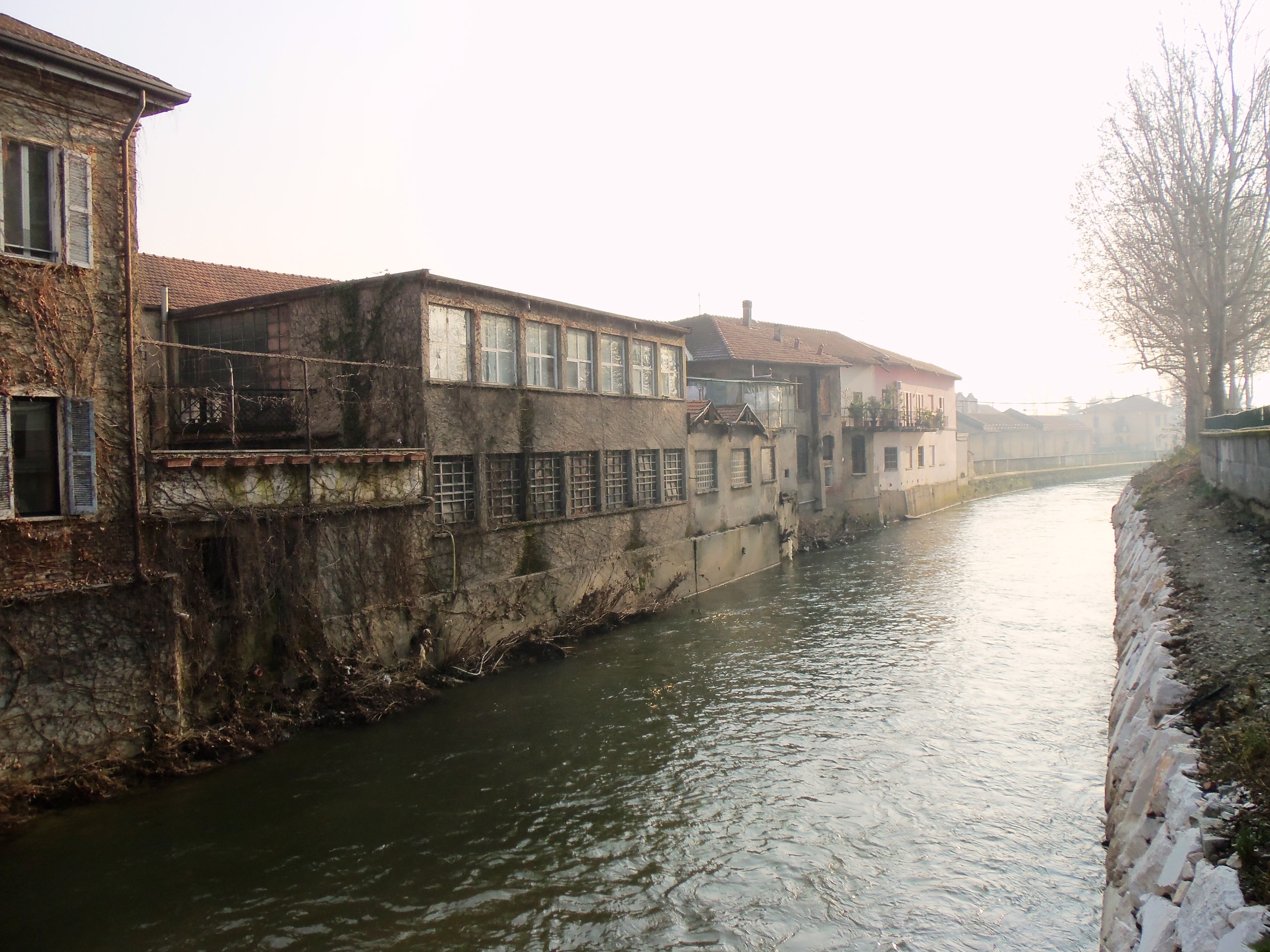 Monza. Ancient factories and Lambro River in south of the city.